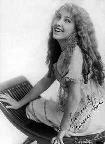 A publicity picture of actress Bessie Love